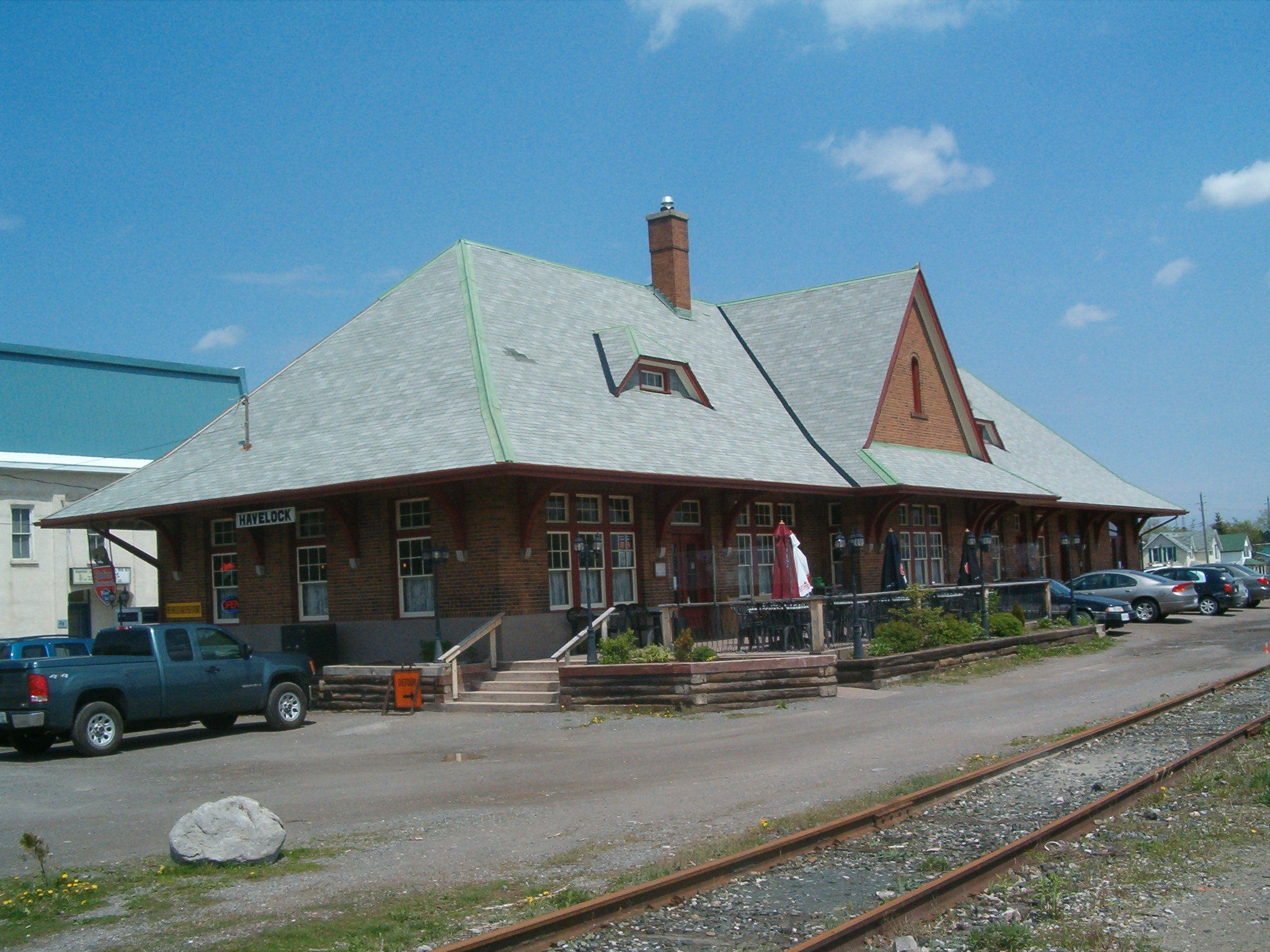 Canadian Pacific Railway Station(built 1929),Havelock,Ontario,Canada Category Railways, Category Train Stations in Ontario